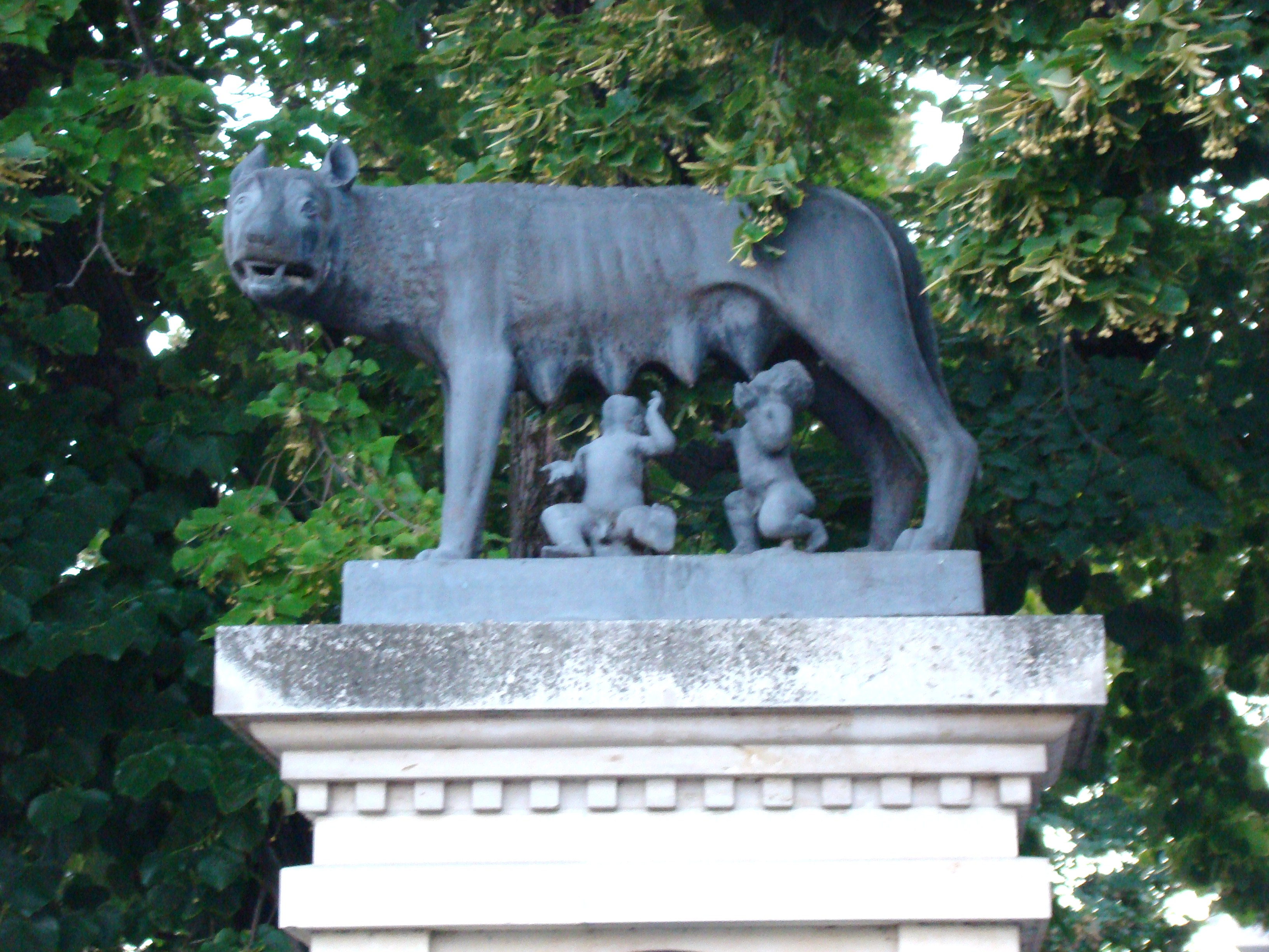 Statue, replica of Lupa Capitolina, located in Târnăveni